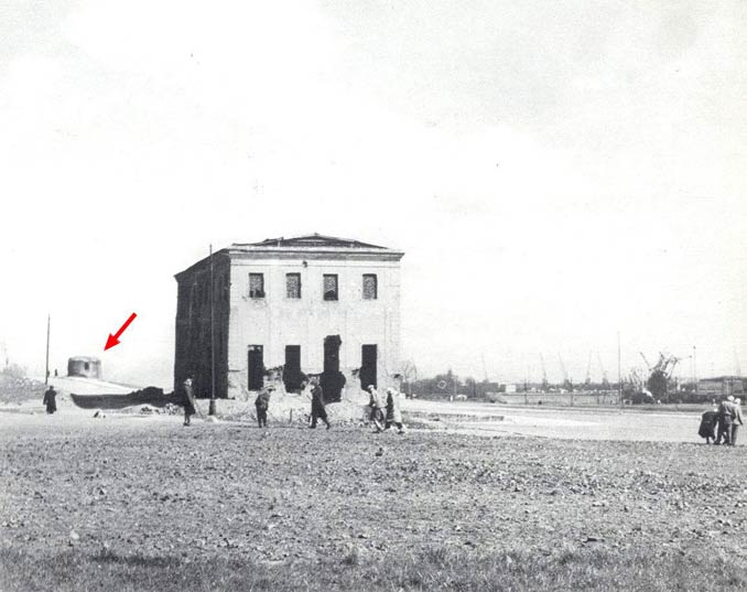 Virgin Tower in Szczecin after clearing of debris (about 1950-60)